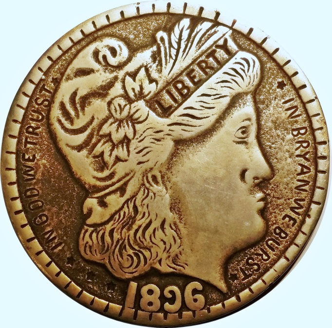 This crude representation of an oversized Morgan dollar, mocks Bryan with the words "IN GOD WE TRUST" "IN BRYAN WE BUST"